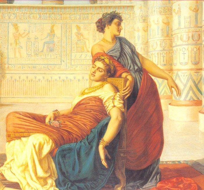 "The Death of Cleopatra," oil on canvas (presumed), by the British painter Valentine Cameron Prinsep. Undated.